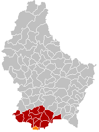 Own edit of Kanton Esch-sur-AlzetteLocatie.png